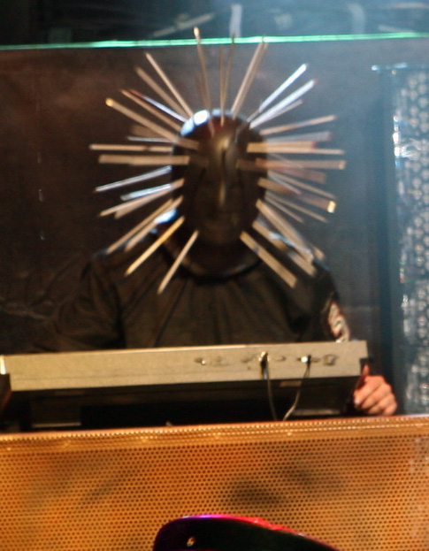 Craig Jones of Slipknot perfmorning at Mayhem Festival 2008.